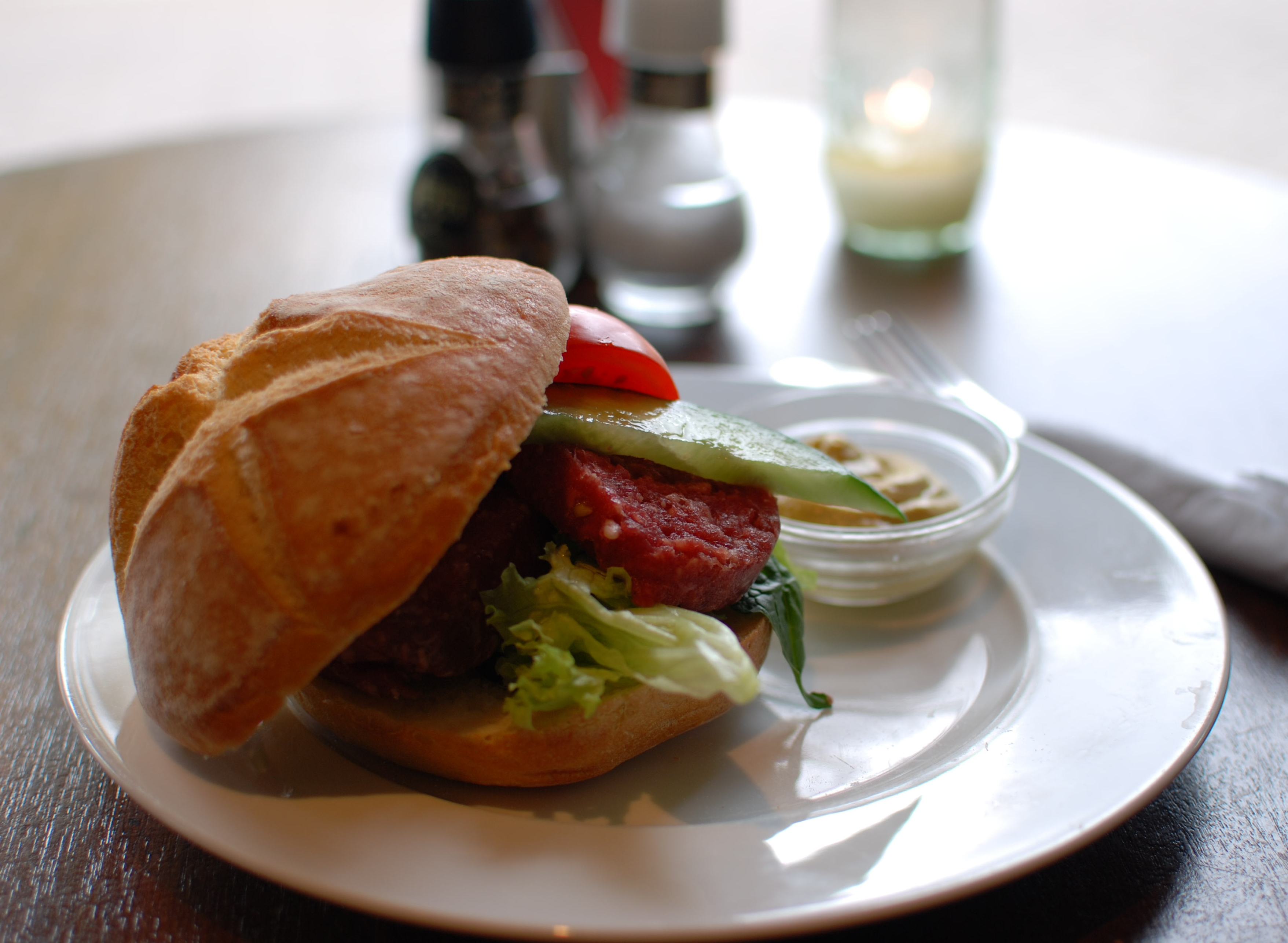 A "broodje ossenworst", a bread bun with cuts of raw minced beef sausage and mustard on the side, is originally a speciality from Amsterdam, the Netherlands. The raw beef sausage contains spices such as pepper, nutmeg, mace and cloves. It is often also eaten as a pub snack on its own and with mustard as a condiment. This photo was taken in a pub in Amsterdam.